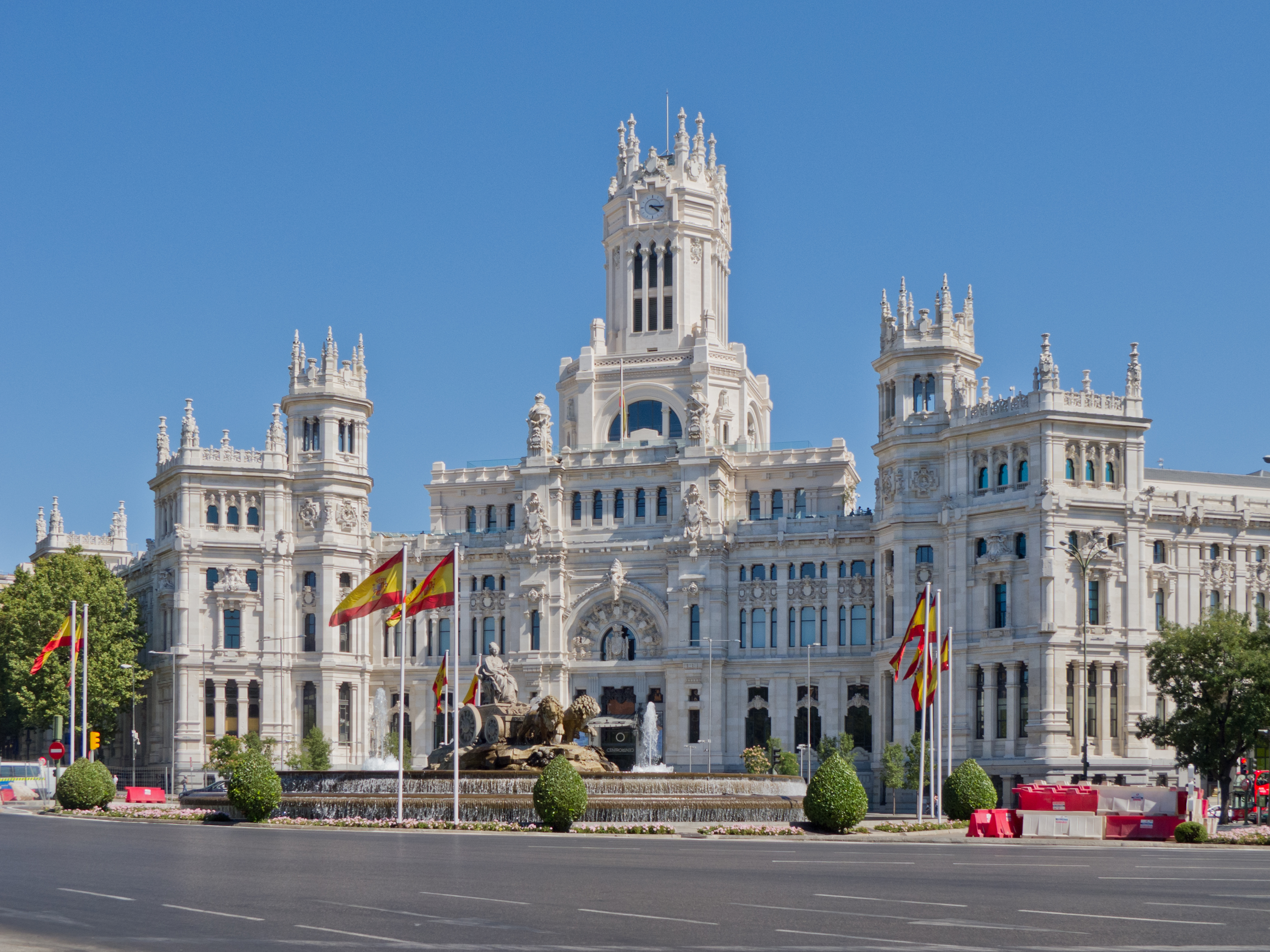 Palace of Communication, Madrid, Spain.